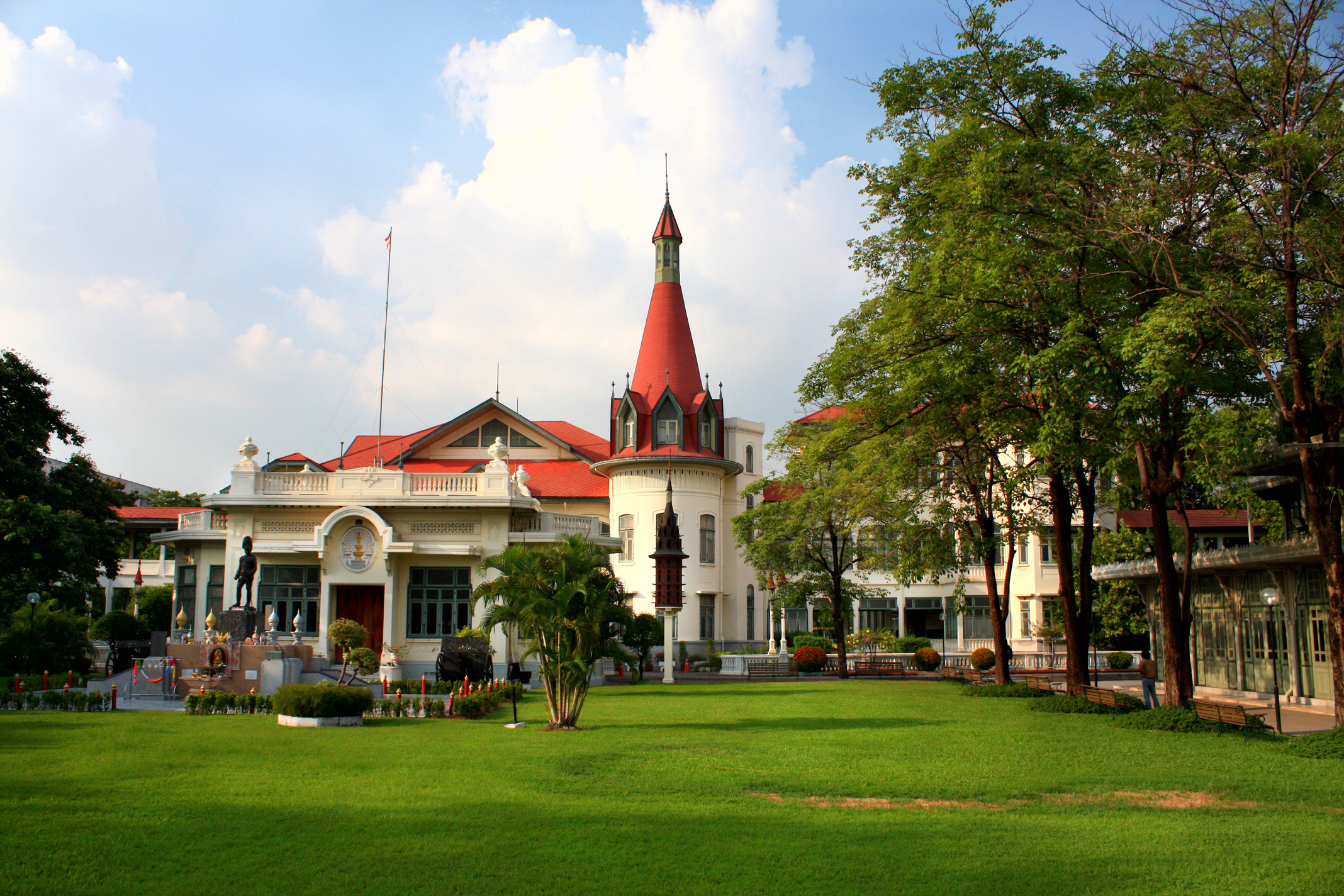 Phayathai Palace, Ratchathewi district, Bangkok Thailand